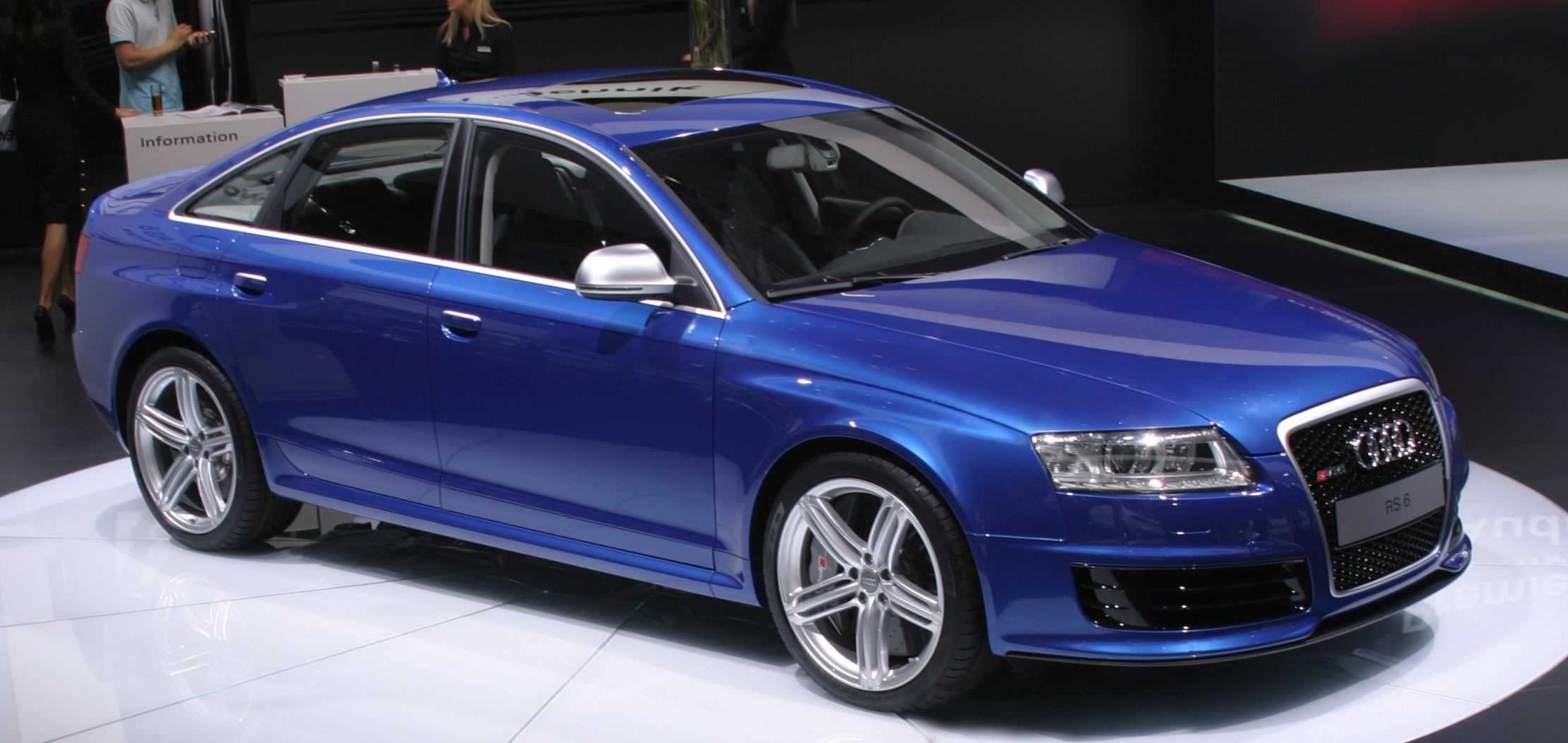 World premiere of Audi RS6 sedan at Moscow international autoshow